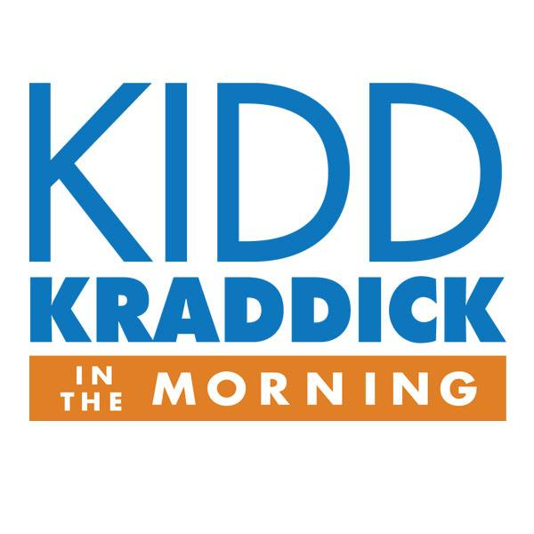 The logo for Kidd Kraddick in the Morning